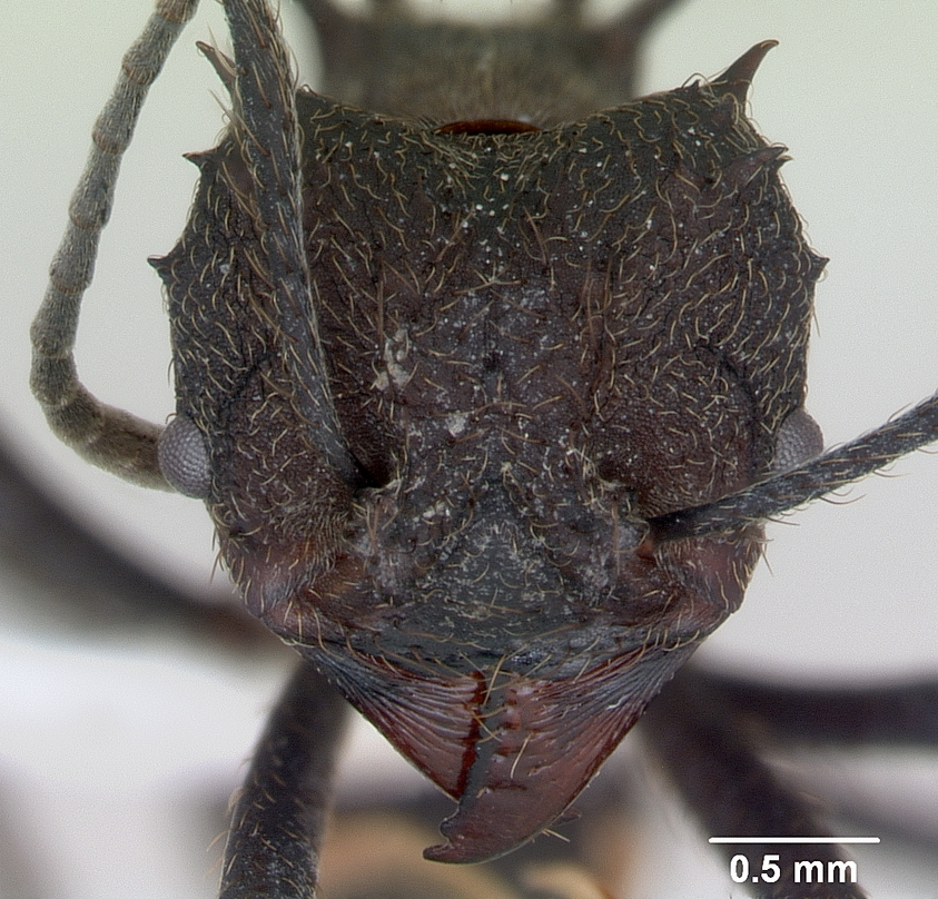 Head view of ant Acromyrmex lundii specimen casent0173797.